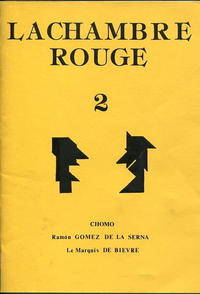 Cover of La Chambre Rouge, number 2, 1983 (Bruno Montpied Publisher)